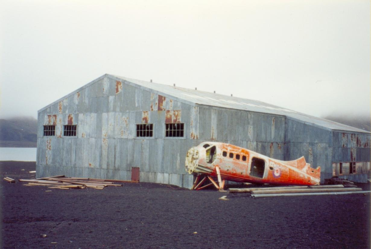 Picture published by the author Lyubomir Ivanov.